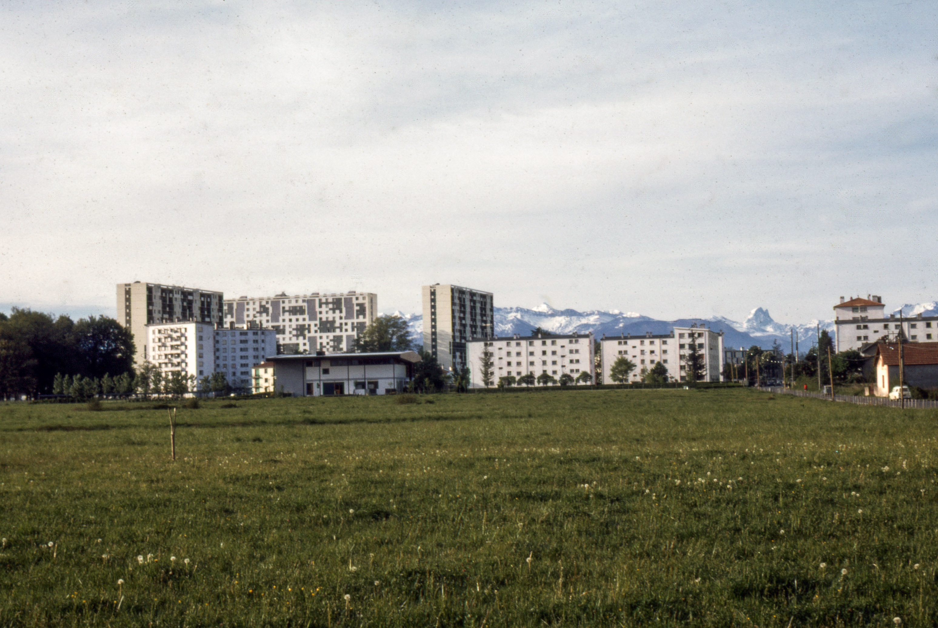 The Campus view from the city students.